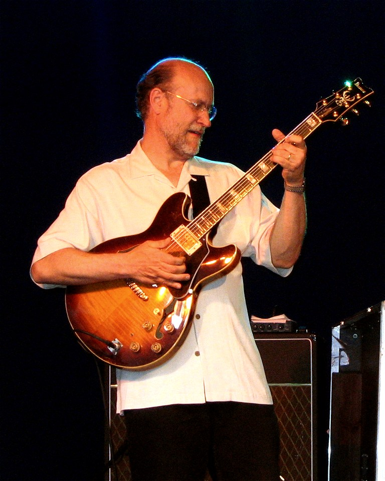 John Scofield in Warsaw, Poland Date: 2004-07-23, Author: Robert Drózd Photo taken with Canon A-75